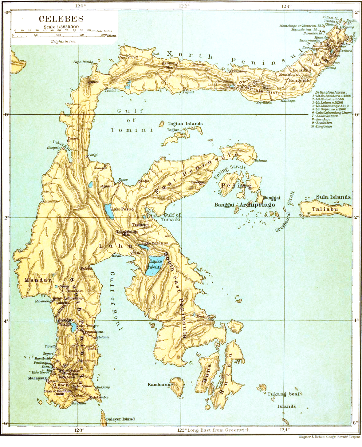 Mape of Sulawesi / Celebes